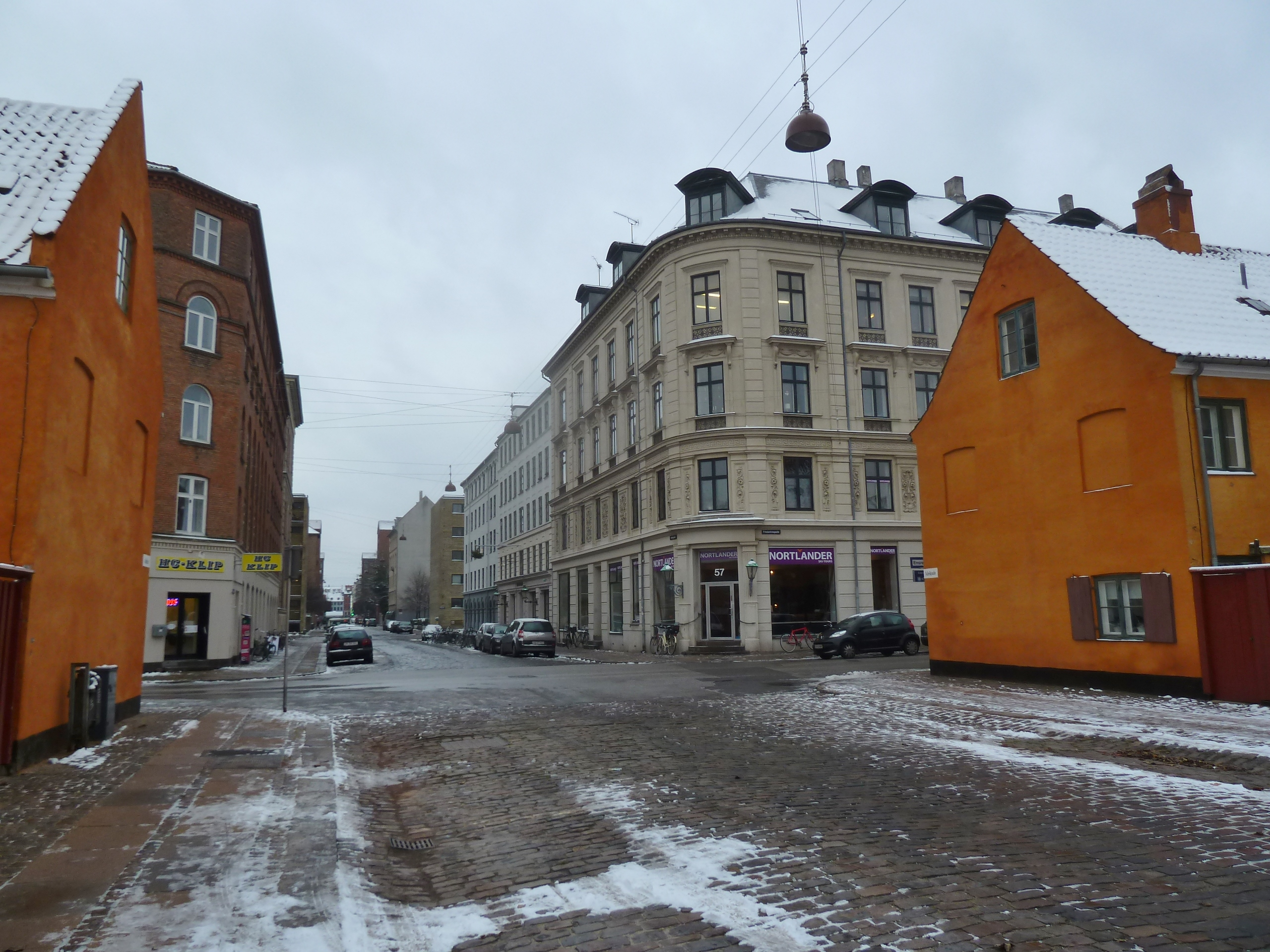 The street Adelgade in the area Nyboder in Indre By, Copenhagen.